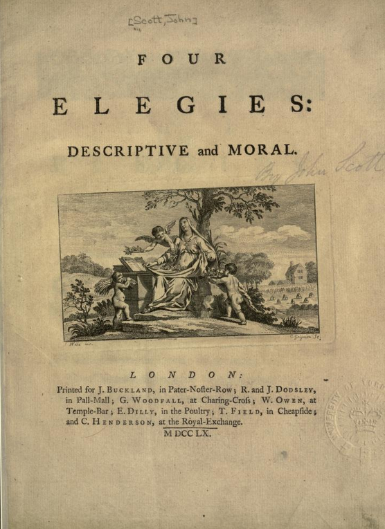 Front page of "Four Elegies, Descriptive and Moral" by John Scott of Amwell, published 1760